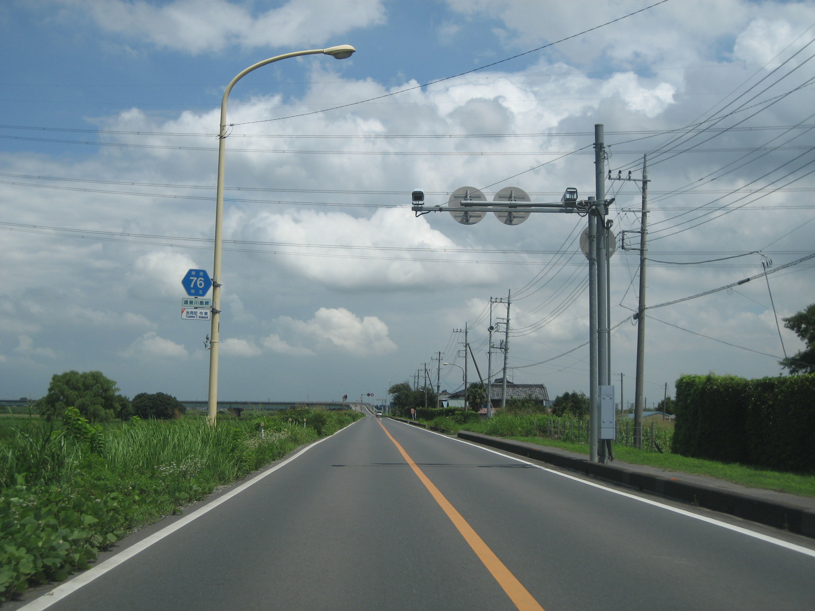 The Saitama Prefectural Road Route 76 in Yoshimi Town